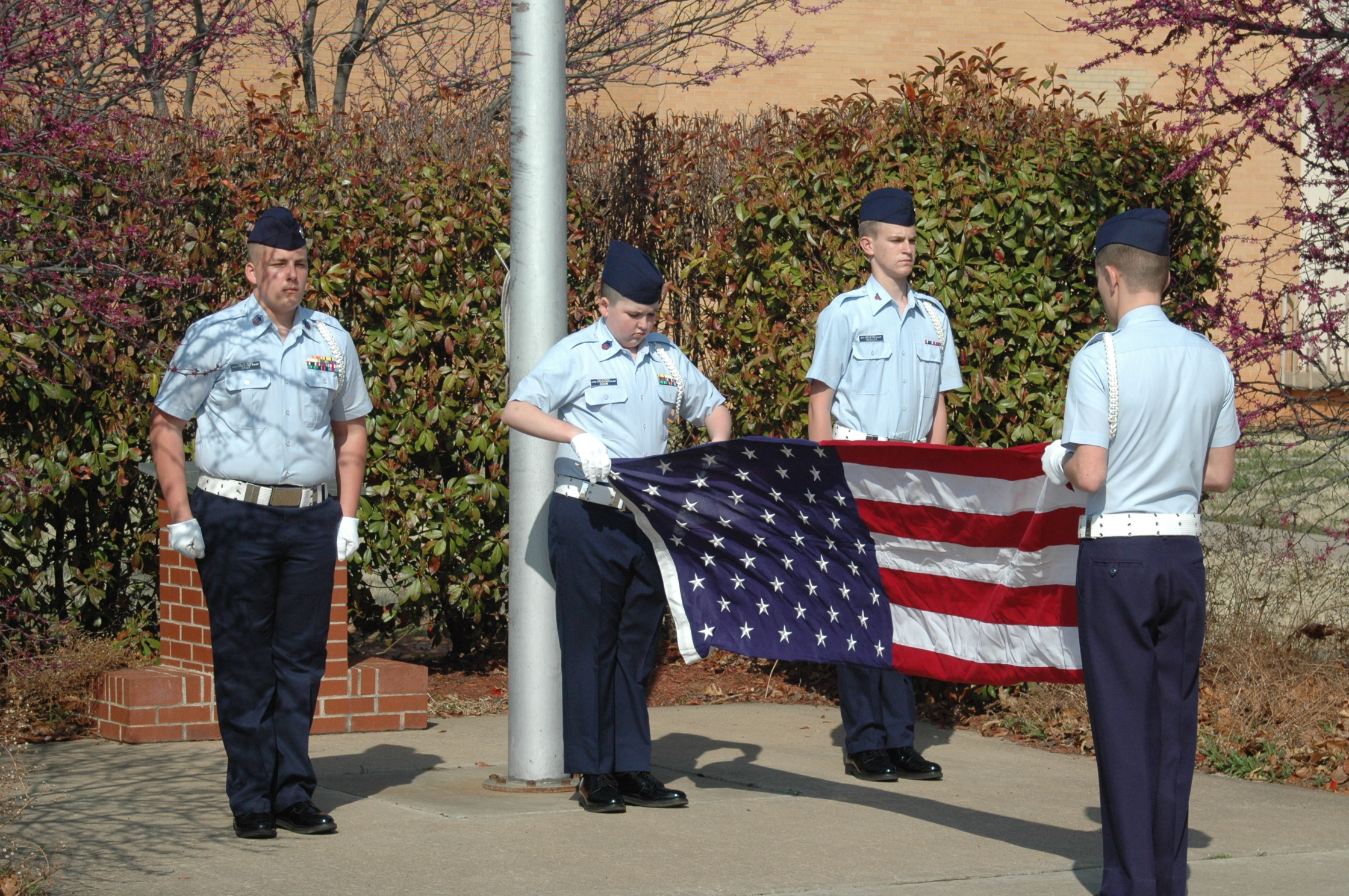 The Grove Composite Squadron team members, from left, Cadets Chief Master Sgt. Benjamin Goodman, Senior Master Sgts. Dakota Gray and Marshall Cook and Senior Airman Justus Taylor demonstrate their ability to lower and fold American flag for this part of the competition. (Air Force photo by Kathy Paine)